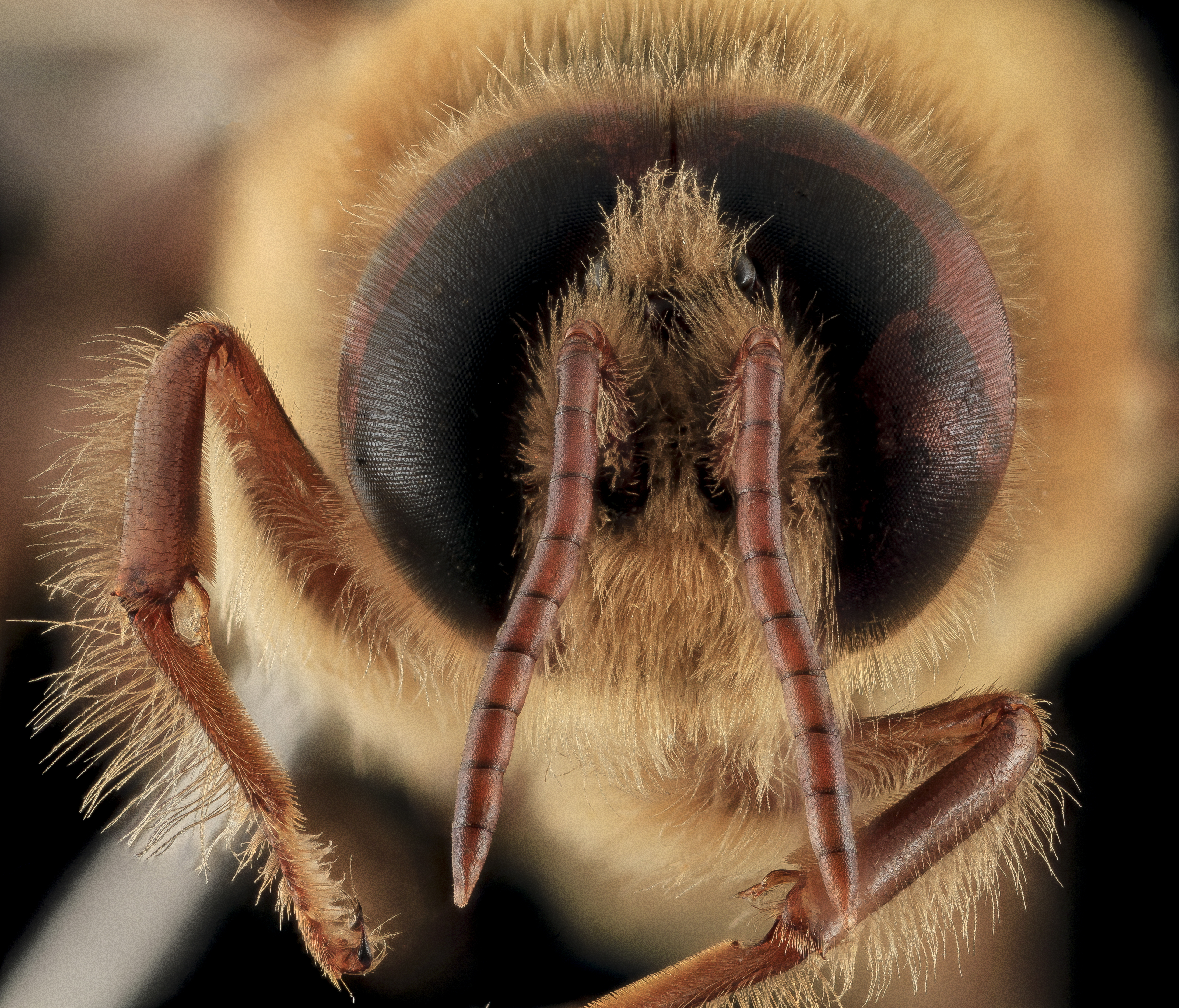 The Drone or male of the honeybee. Note the eyes, they actually meet on top of the head. It lives only do mate with a virgin queen and the expanded compount eyes help. Note the weak reflection of the female's heavily modified hind tibia, still expanded, but not really functionally, probably a molecularly cheap byproduct of being haploid. Collected from a colony in Talbot County, Maryland by Tim McMahon